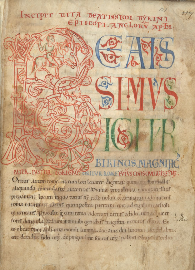 MS. BL_Cotton_Caligula_A_VIII f. 121r: first page of Vita beatissimi Byrini